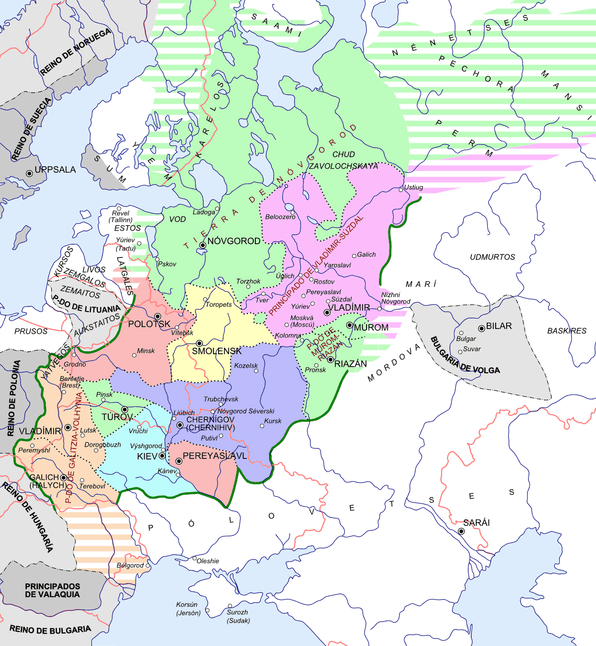 Map of Kievan Rus in 1237 (in Spanish)